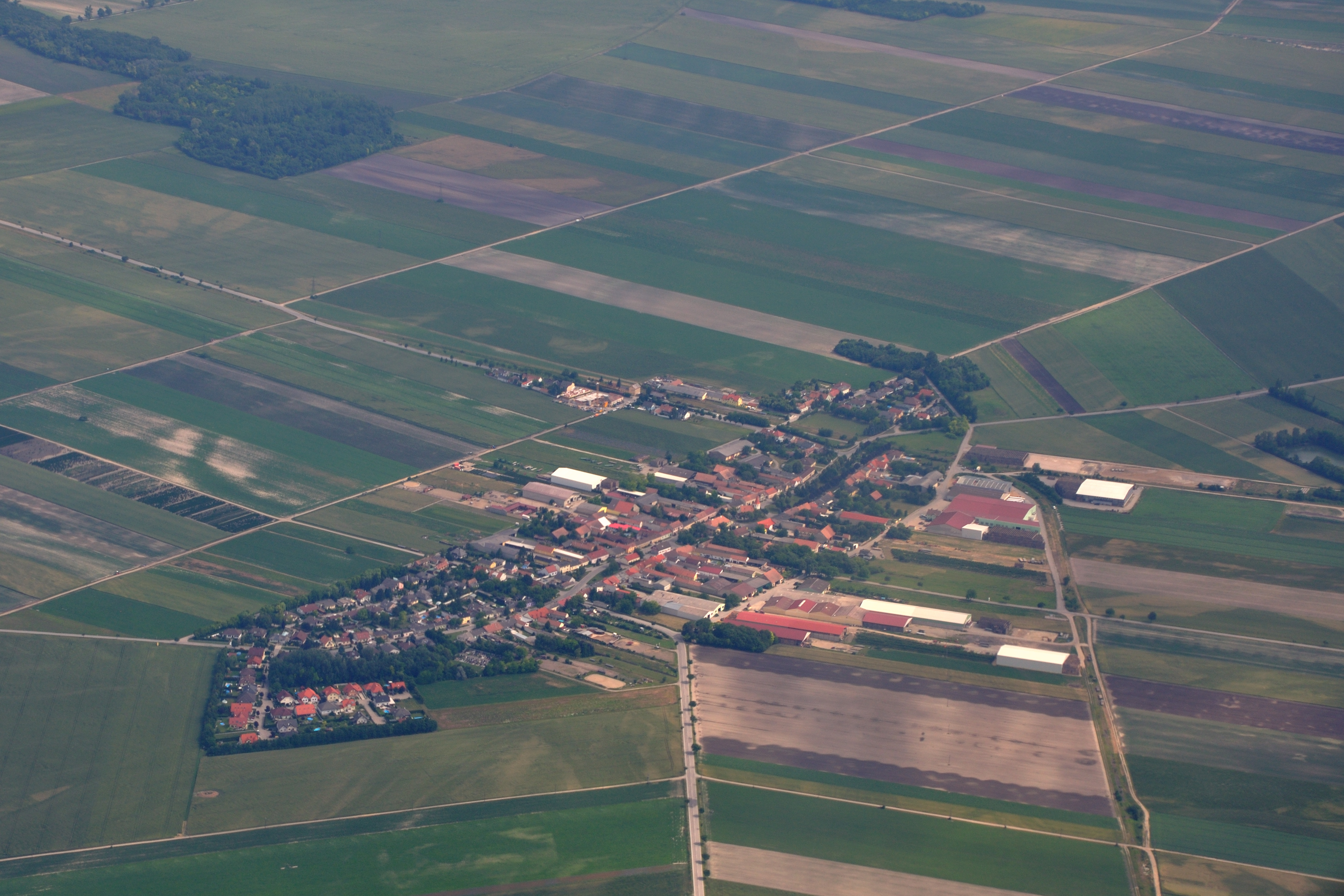 Austria, climbing out of Wien-Schwechat